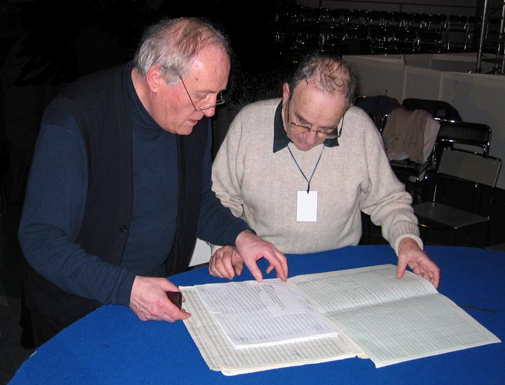 Slovene composer Mojmir Sepe (left) and TV director Dušan Hren.